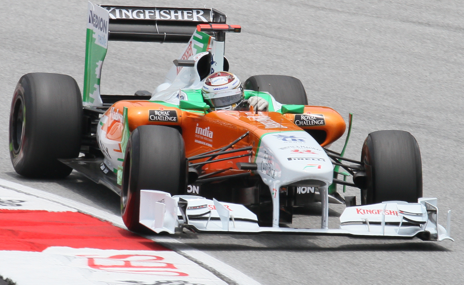 Formula One 2011 Rd.2 Malaysian GP: Adrian Sutil (Force India) during the third practice session on Saturday.